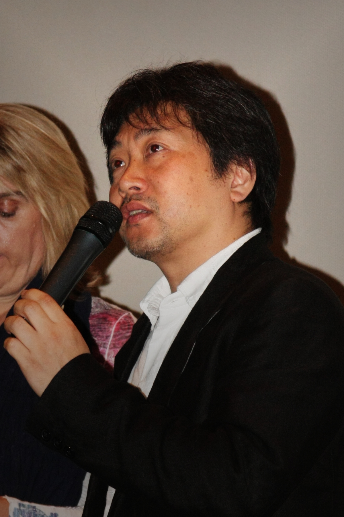 Hirokazu Koreeda at the "Air Doll" Q&A, Toronto International Film Festival 2009